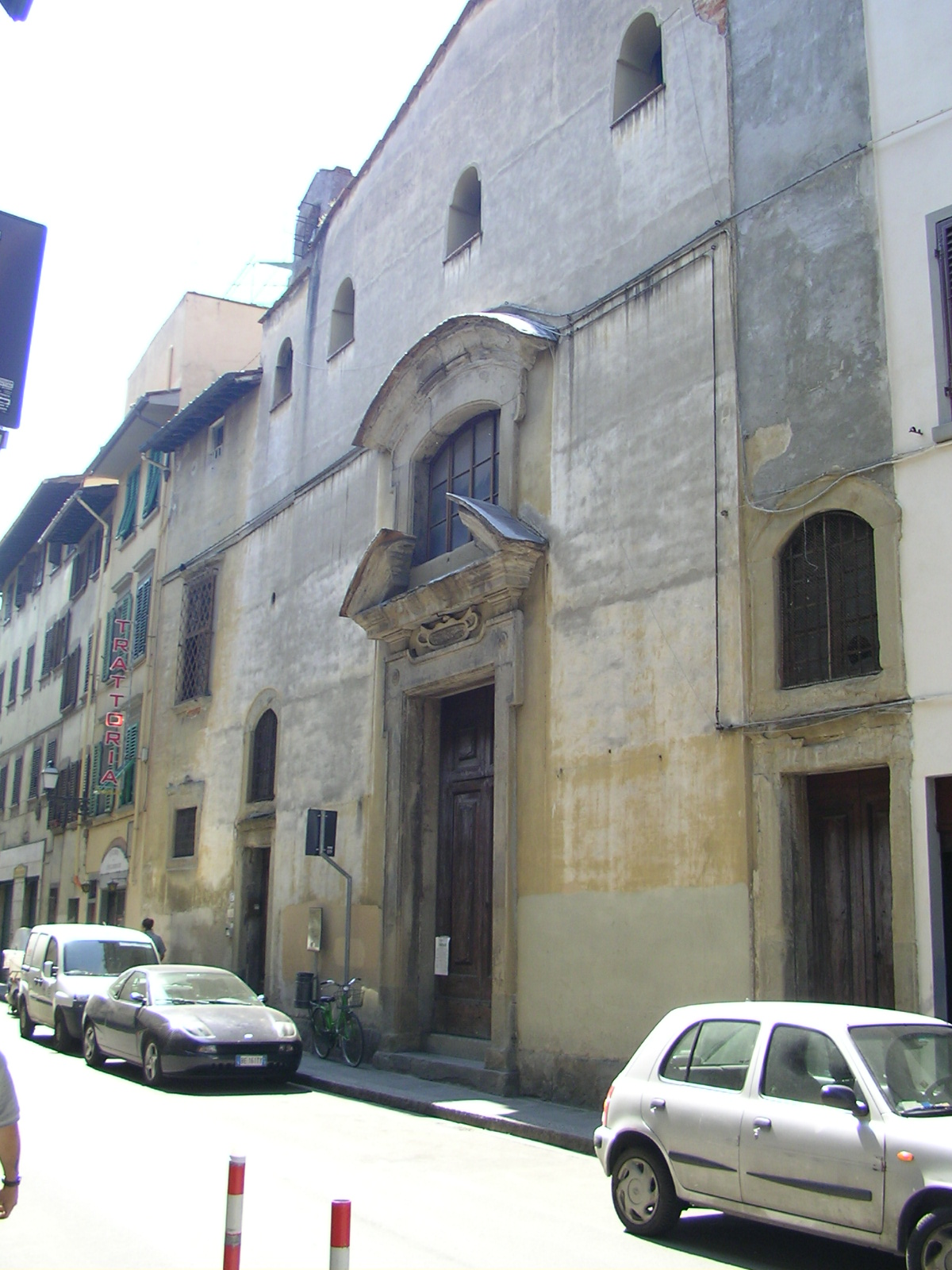 church facade from Florence, Italy